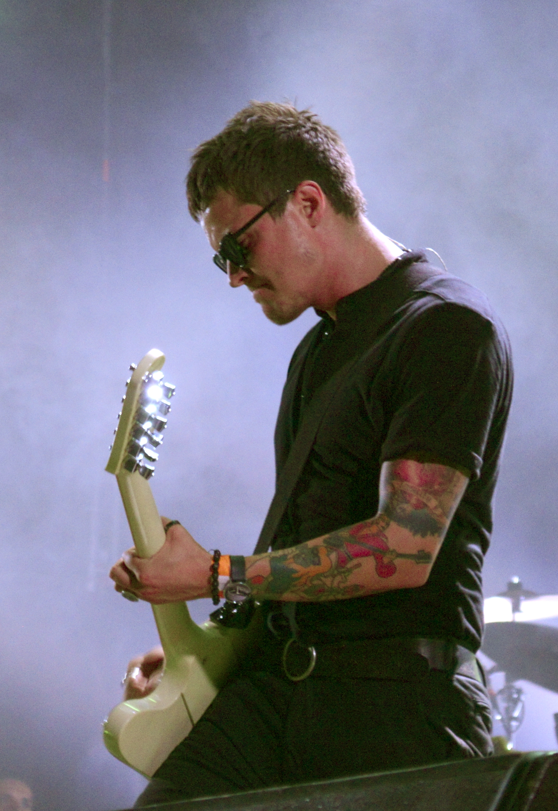 Ukrainian singer Yevhen Halych, the frontman of the band O.Torvald at the 2018 MRPL City Festival.